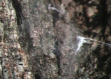 female Oilinyphia peculiaris from Okinawa.